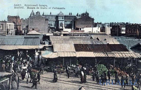 Kubinskaya square and market in 1905. Postcard of Russian Empire.